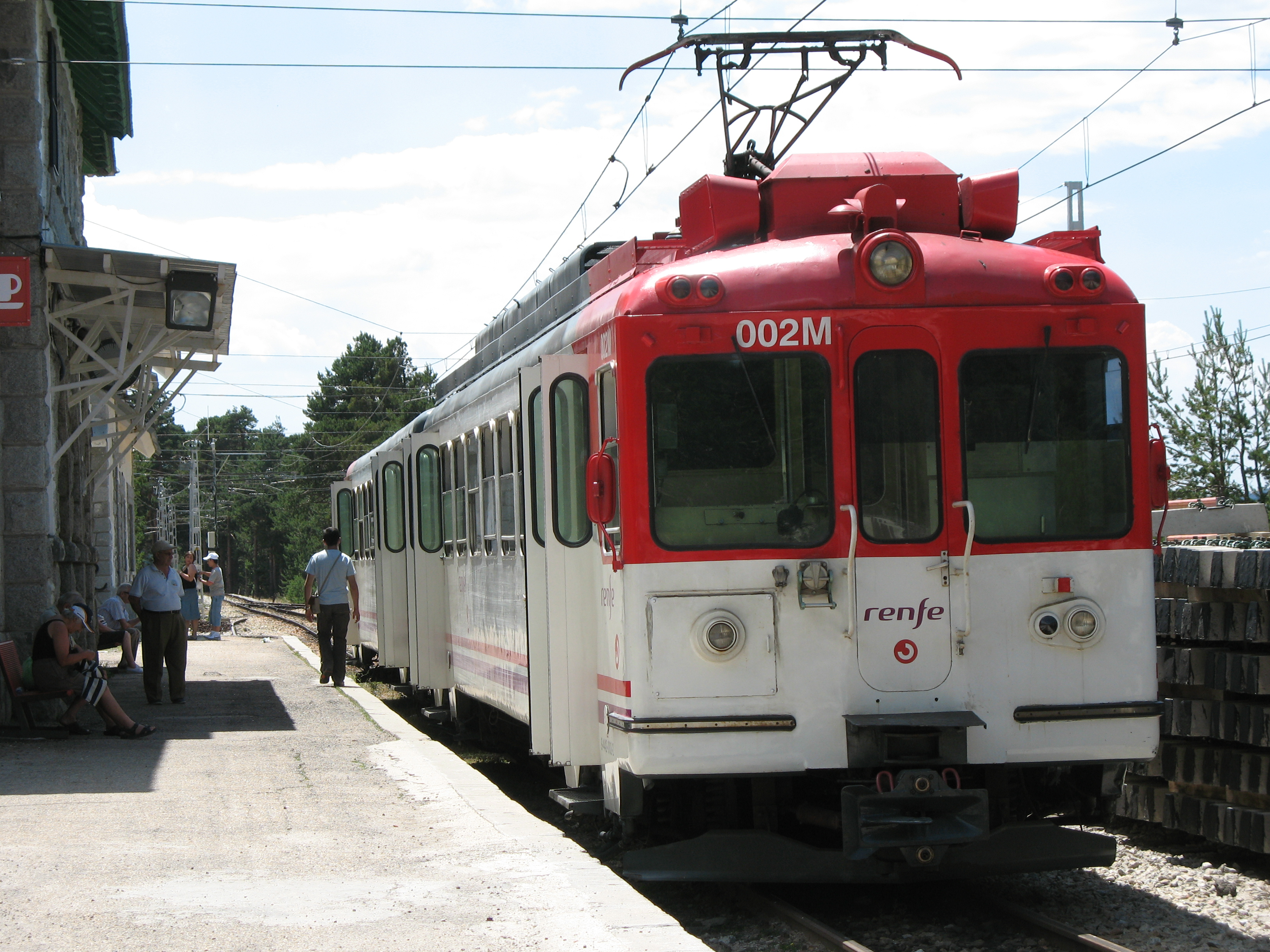 442 train at Cotos station in Madrid, Spain.